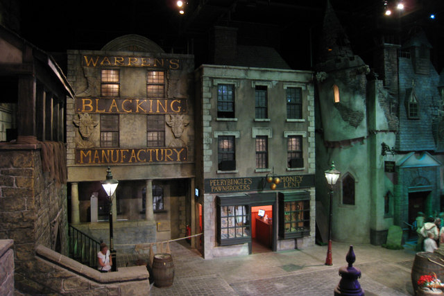 Dickens World A fibreglass Victorian town square recreation at Dickens World. Keywords: chatham, charles dickens, childrens tourist attraction, shop fronts